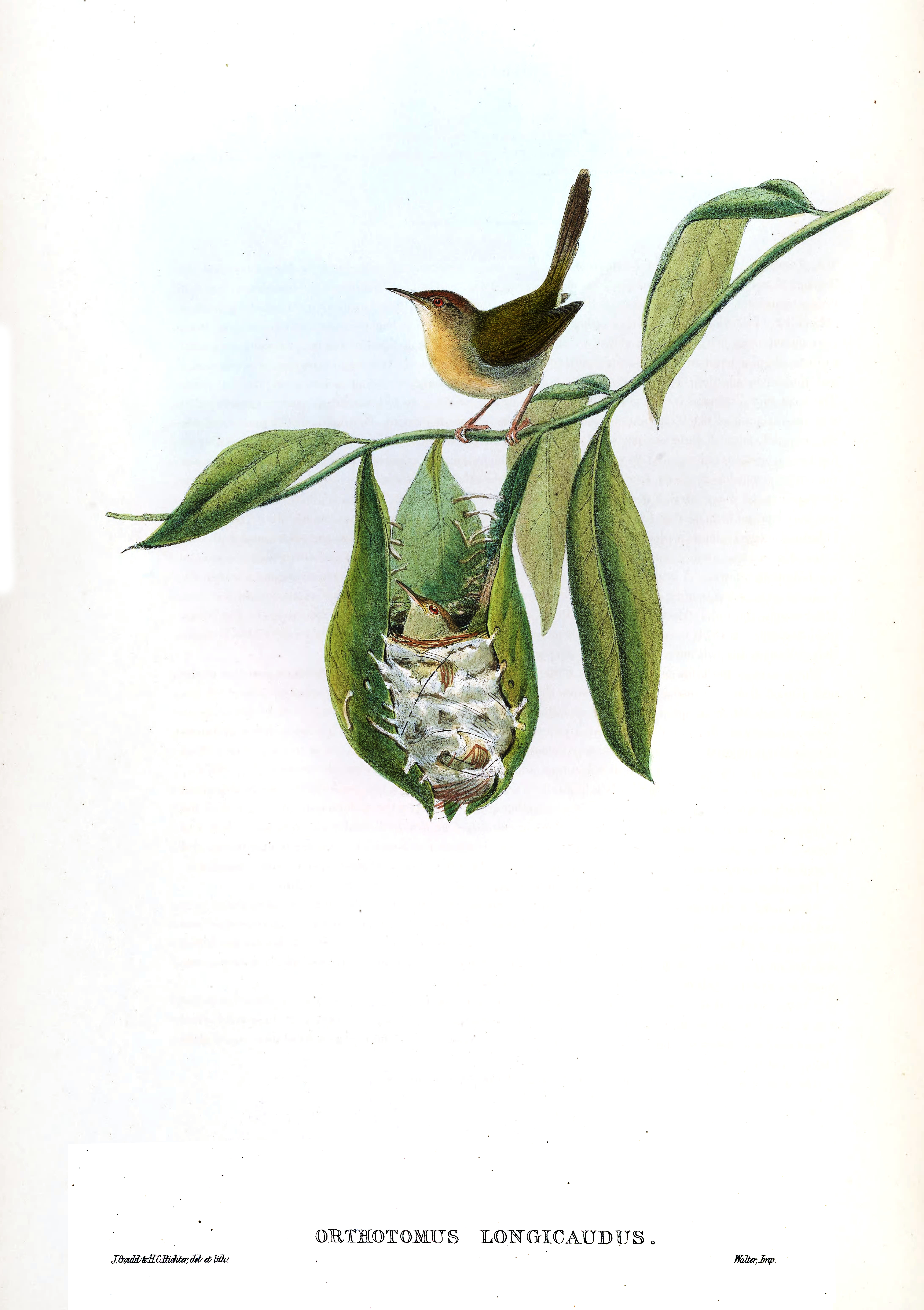 Orthotomus longicaudus = Orthotomus sutorius longicaudus[1]